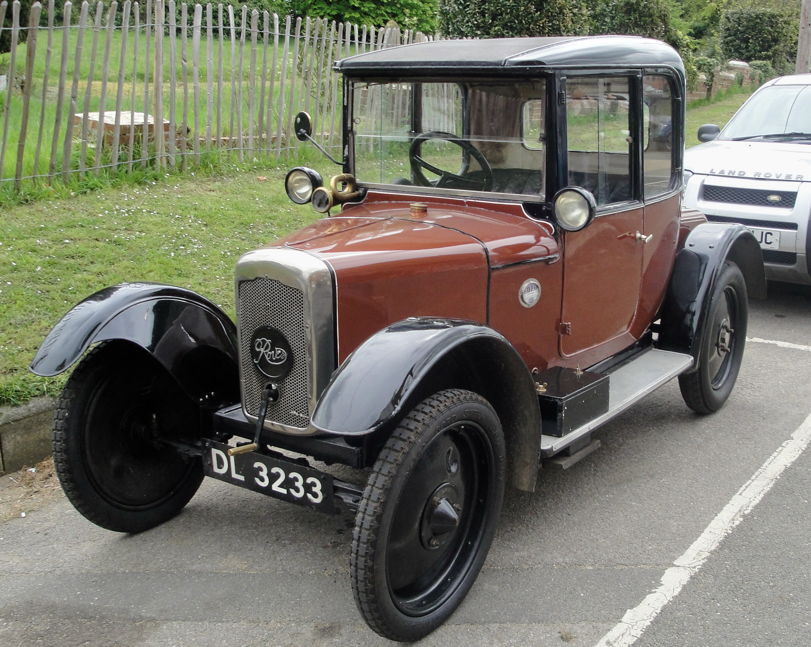 A 1923 Rover 8 (DL 3233) at Newport Quay, Newport, Isle of Wight for the Isle of Wight Bus Museum's running day in May 2010.